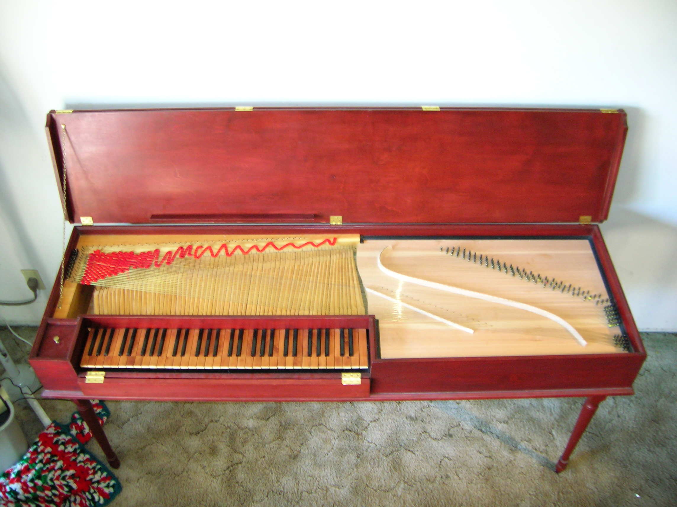 I took this picture of my clavichord. Instrument by Paul Maurici, 2001, after Joh. Albrecht Haas. Five octaves, unfretted, case of mahogany, poplar, and birch. Maple naturals, ebony accidentals.